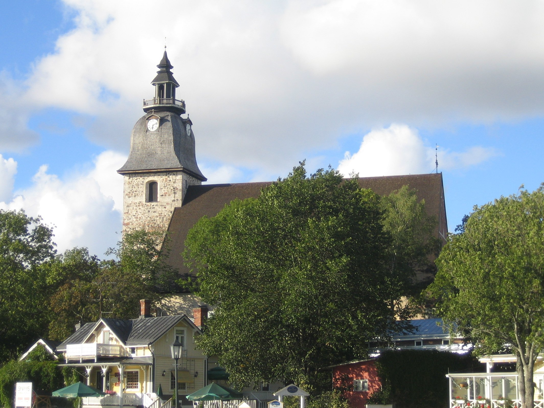 Church of Naantali, Finland.